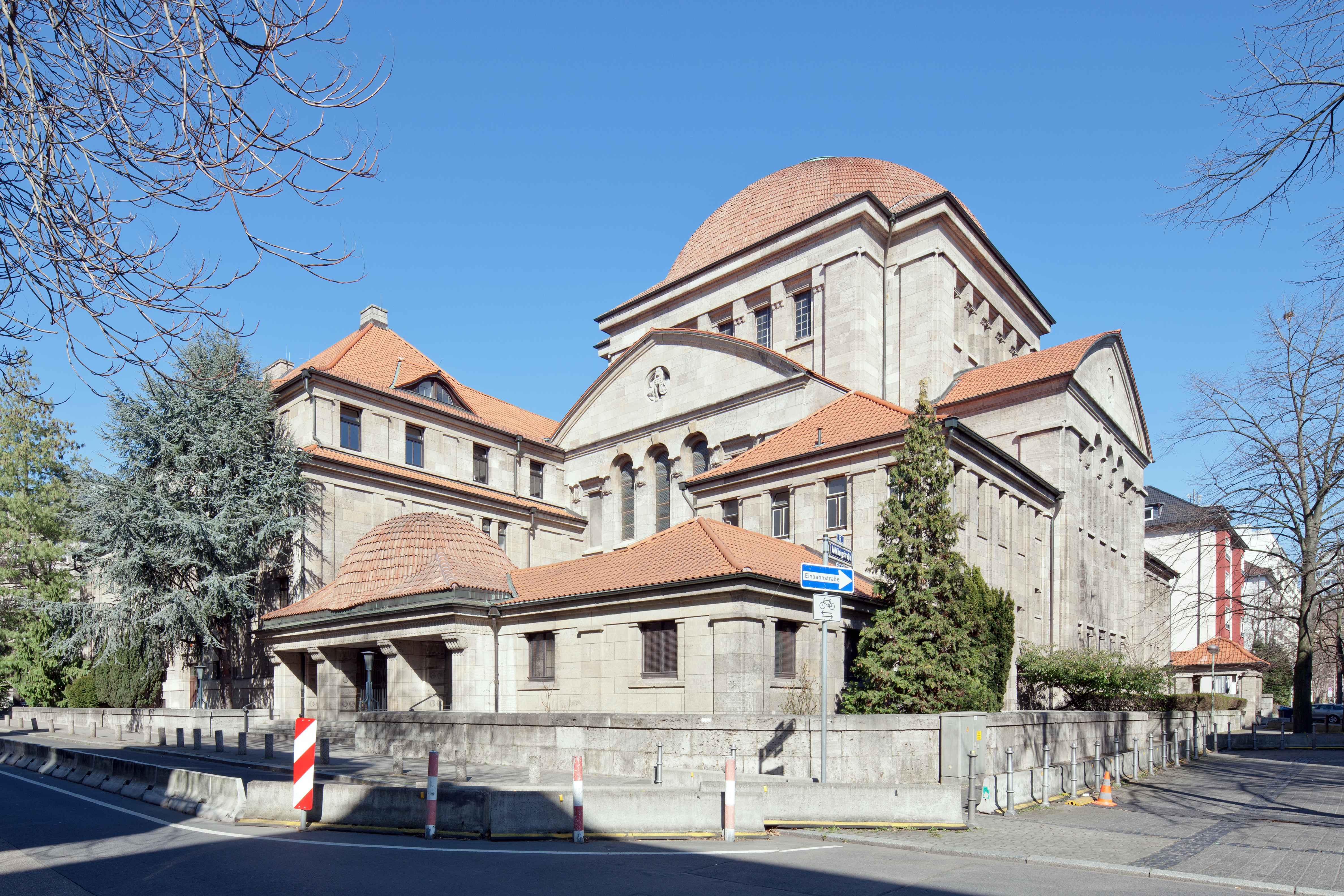 Frankfurt on the Main: Westendsynagoge (Westend Synagogue) as seen from the southwest